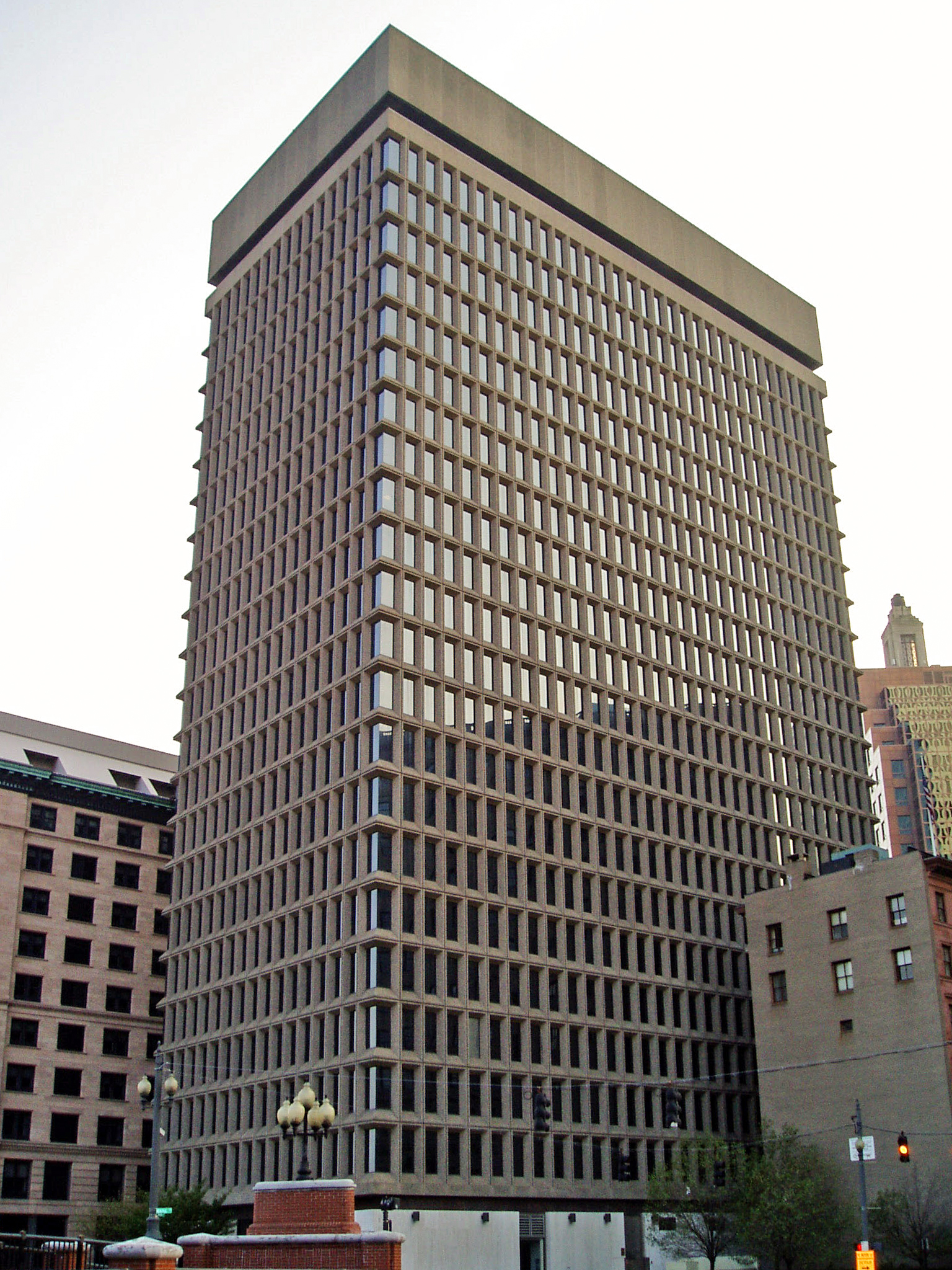 Textron's world headquarters in Providence, Rhode Island, United States.